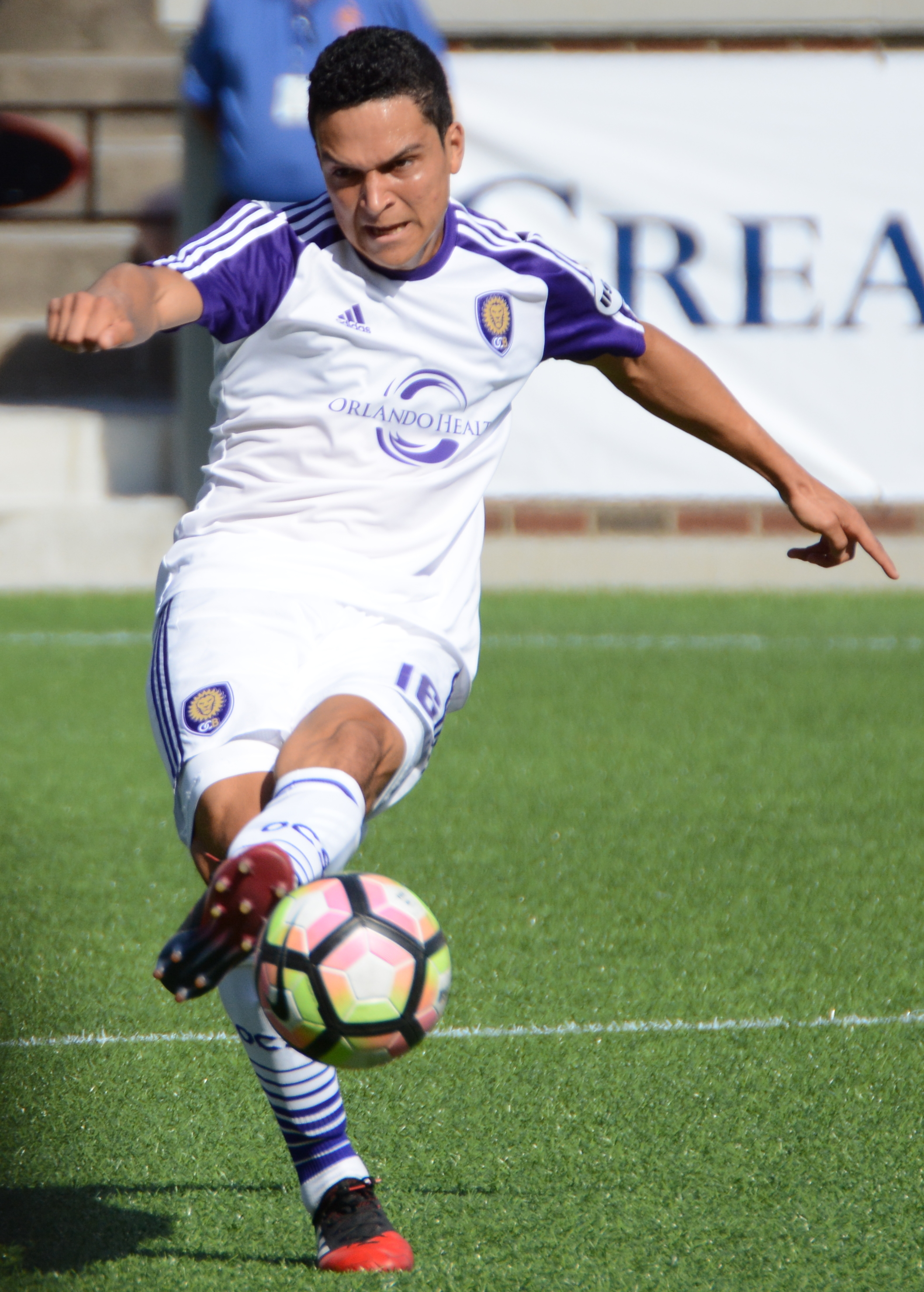 Tony Rocha Taken during a match between FC Cincinnati and Orlando City B at Nippert Stadium in Cincinnati, USA on May 13, 2017.